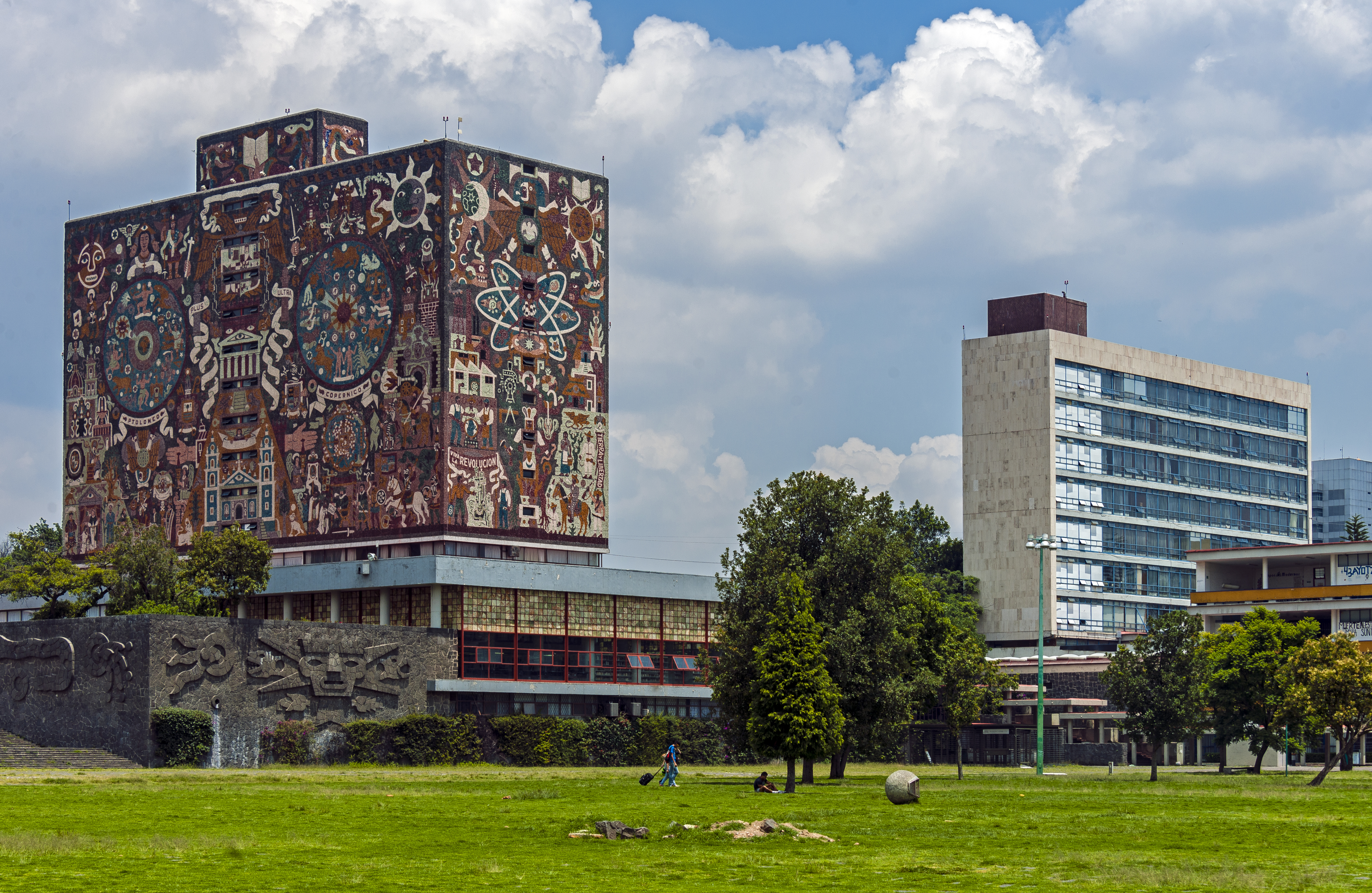 Biblioteca and Torre I des Humanidades, seen from across Las Islas, at Ciudad Universitaria, Mexico City.